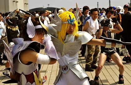 Seiya y Hyoga